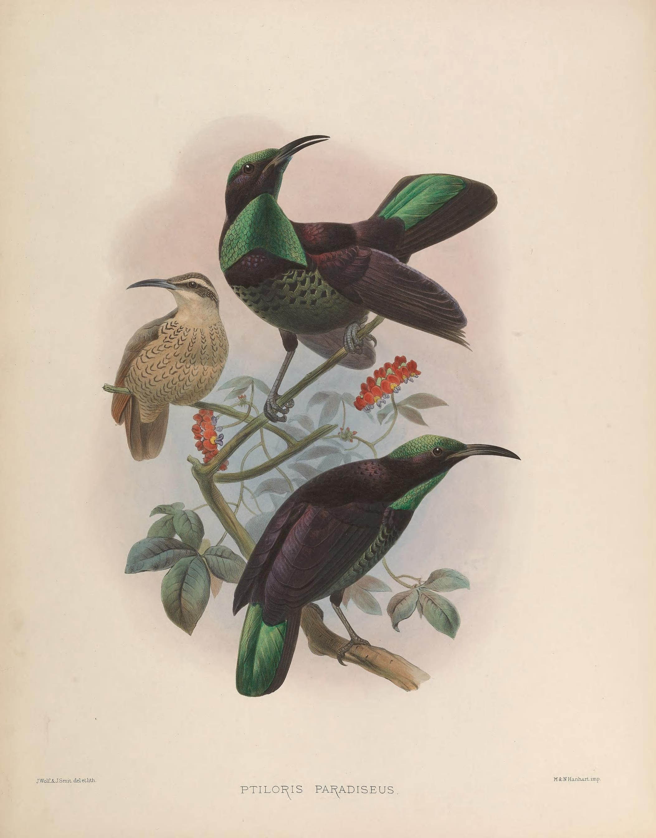 Drawing of 1873